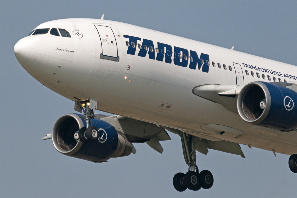 RO0361 flight from Bucharest, 12th visit to Amsterdam for this aircraft. Airbus A310-325/ET Amsterdam - schiphol airport (AMS / EHAM) 03-09-2011